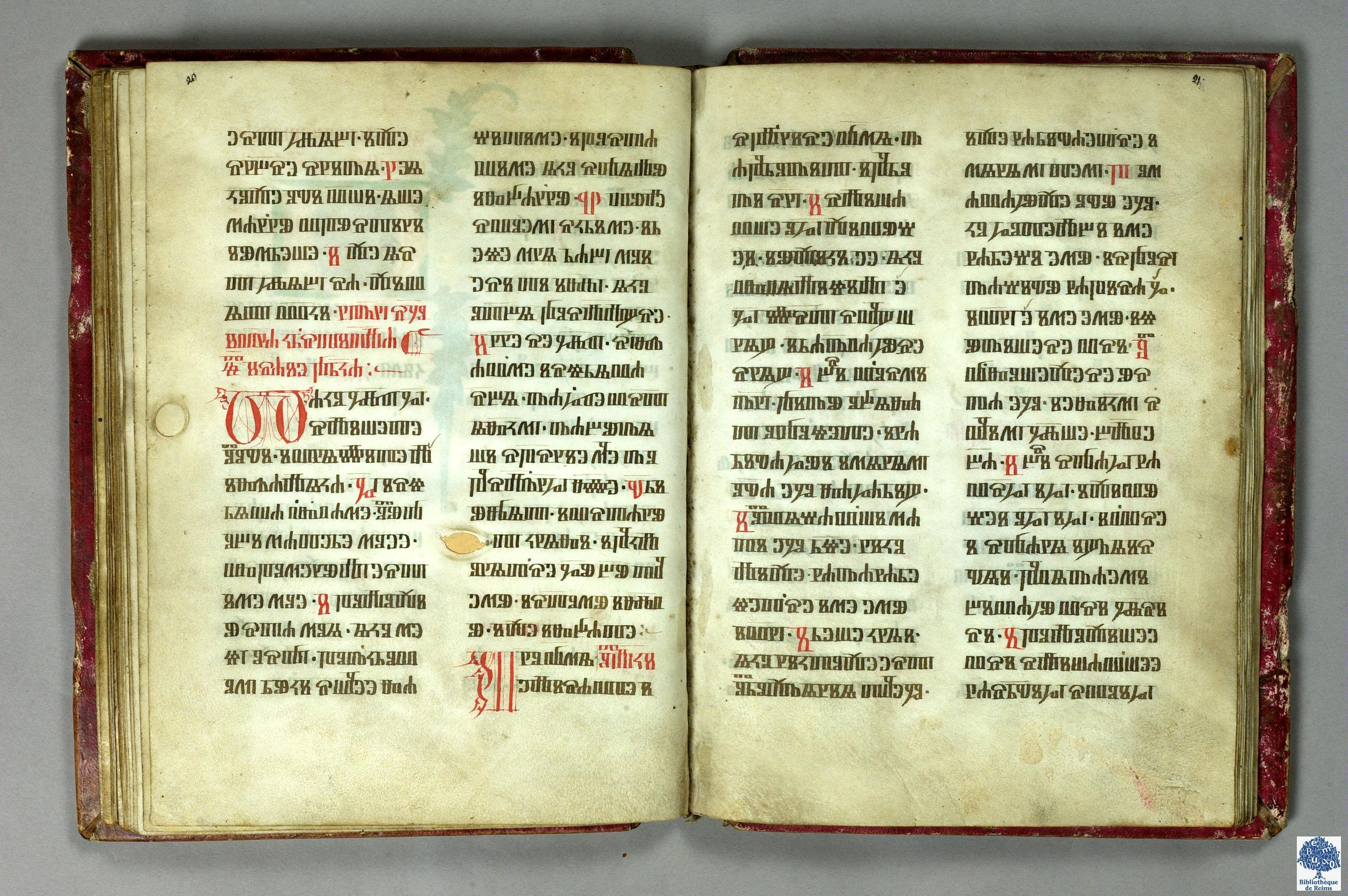 Reims gospel book